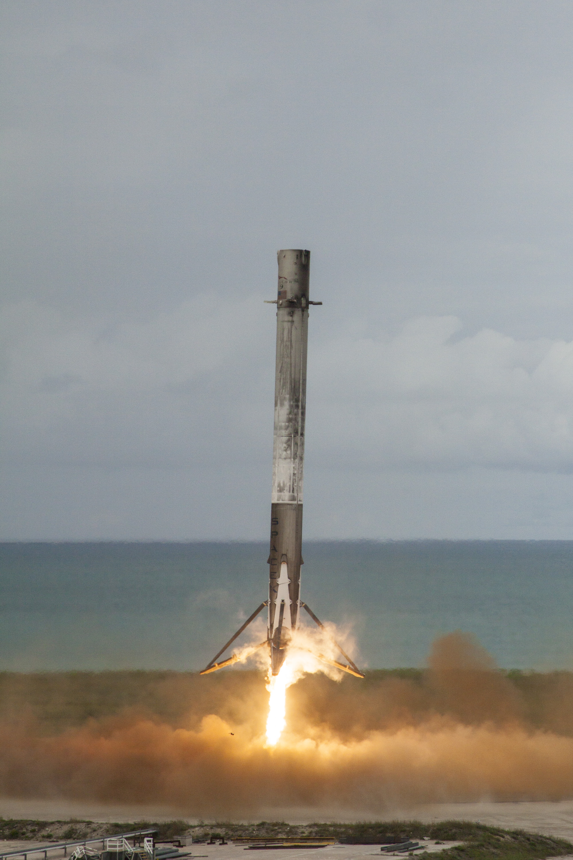 Falcon 9 is landing on Landing Zone 1